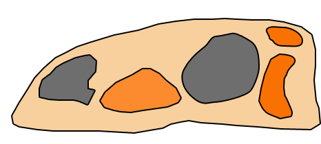 "triapsid" Skull = "standard" archosaur skull